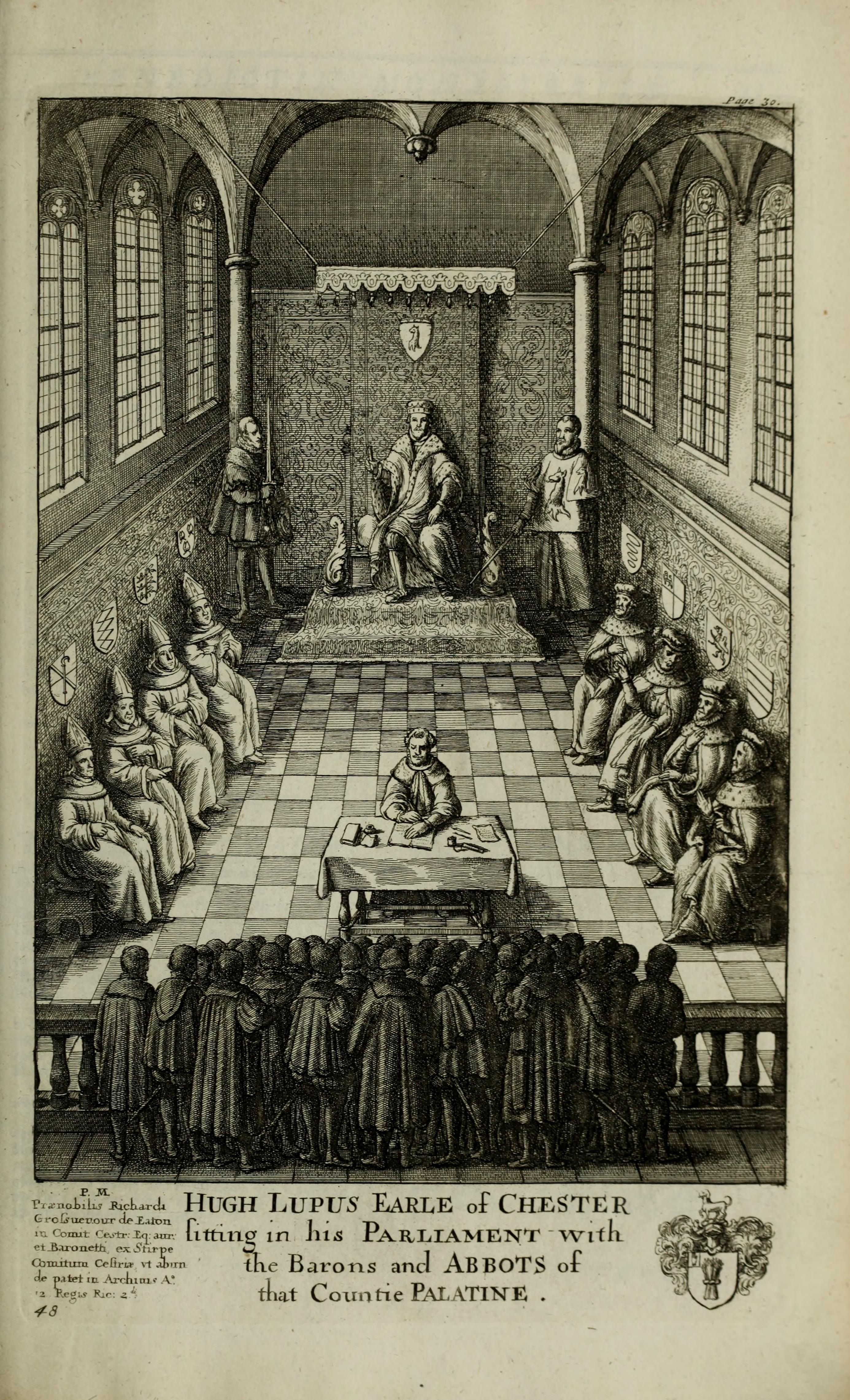 "Hugh Lupus Earle of Chester sitting in his parliament with the barons and abbots of that Countie Palatine". Engraving in 1718 edition of William Dugdale's Monasticon Anglicanum, between pages 30-31